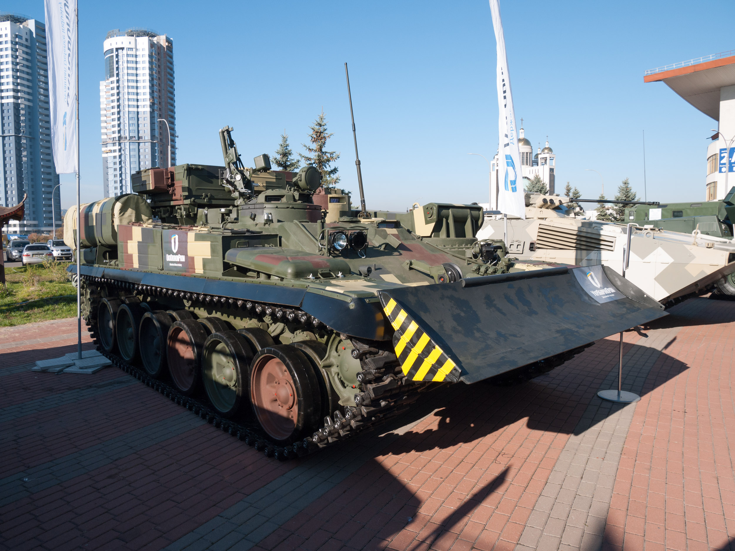 BREM Lev engineer vehicle, 'Zbroya ta Bezpeka' military fair, Kyiv, Ukraine, 2018